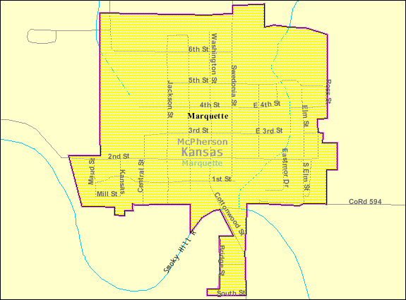 Detailed map of Marquette, Kansas